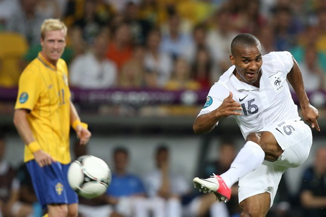 Florent Malouda at the Euro 2012 match against Sweden